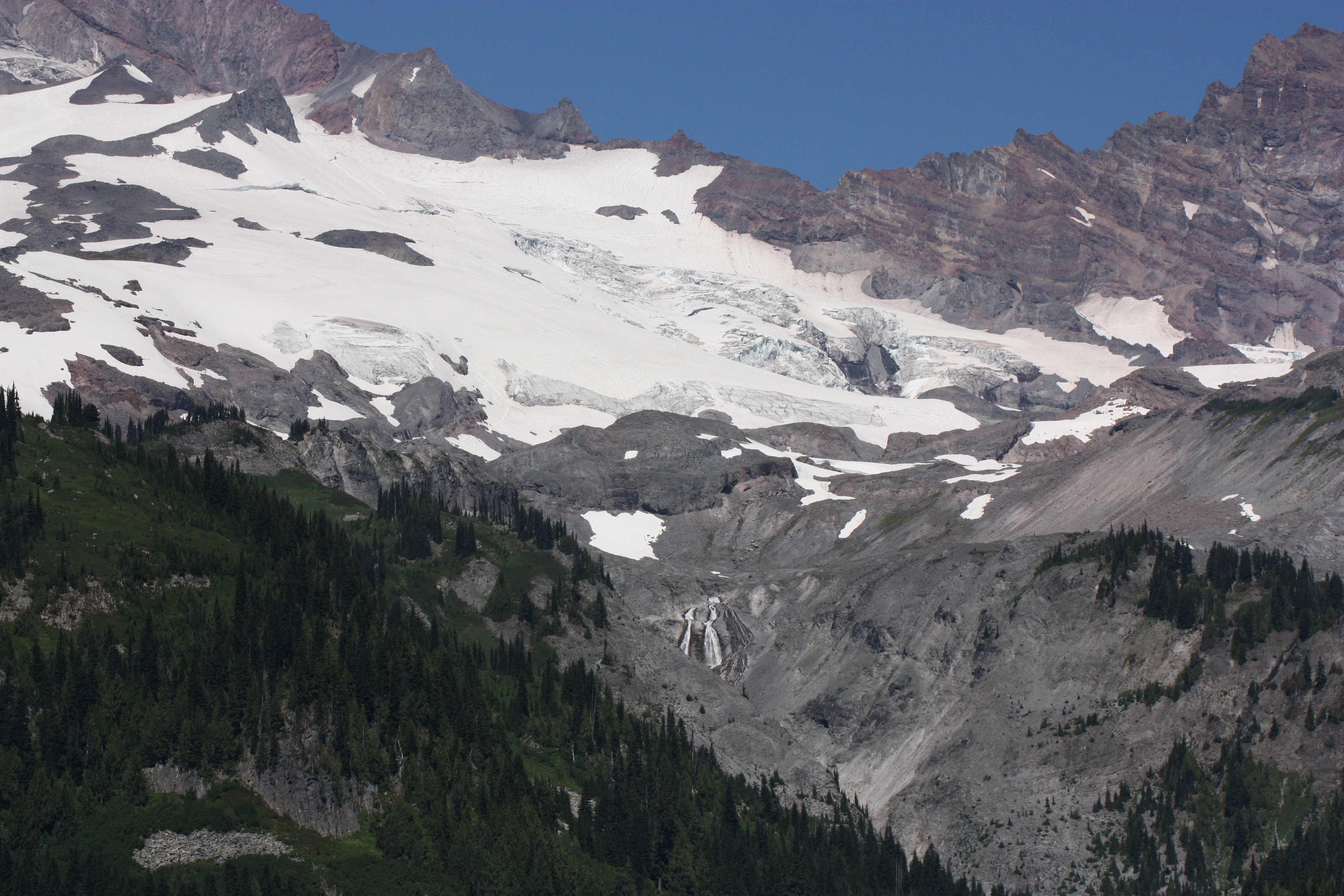 Paradise Glacier (above and left center); Cowlitz Glacier (with many crevasses, above and behind); Anvil Rock (9584 feet, 2921 m, upper left, above bergschrund at 8900 feet; about ten climbers are just visible at full resolution on Muir Snowfield (upper left) below Camp Muir; Fairy Falls (below center)